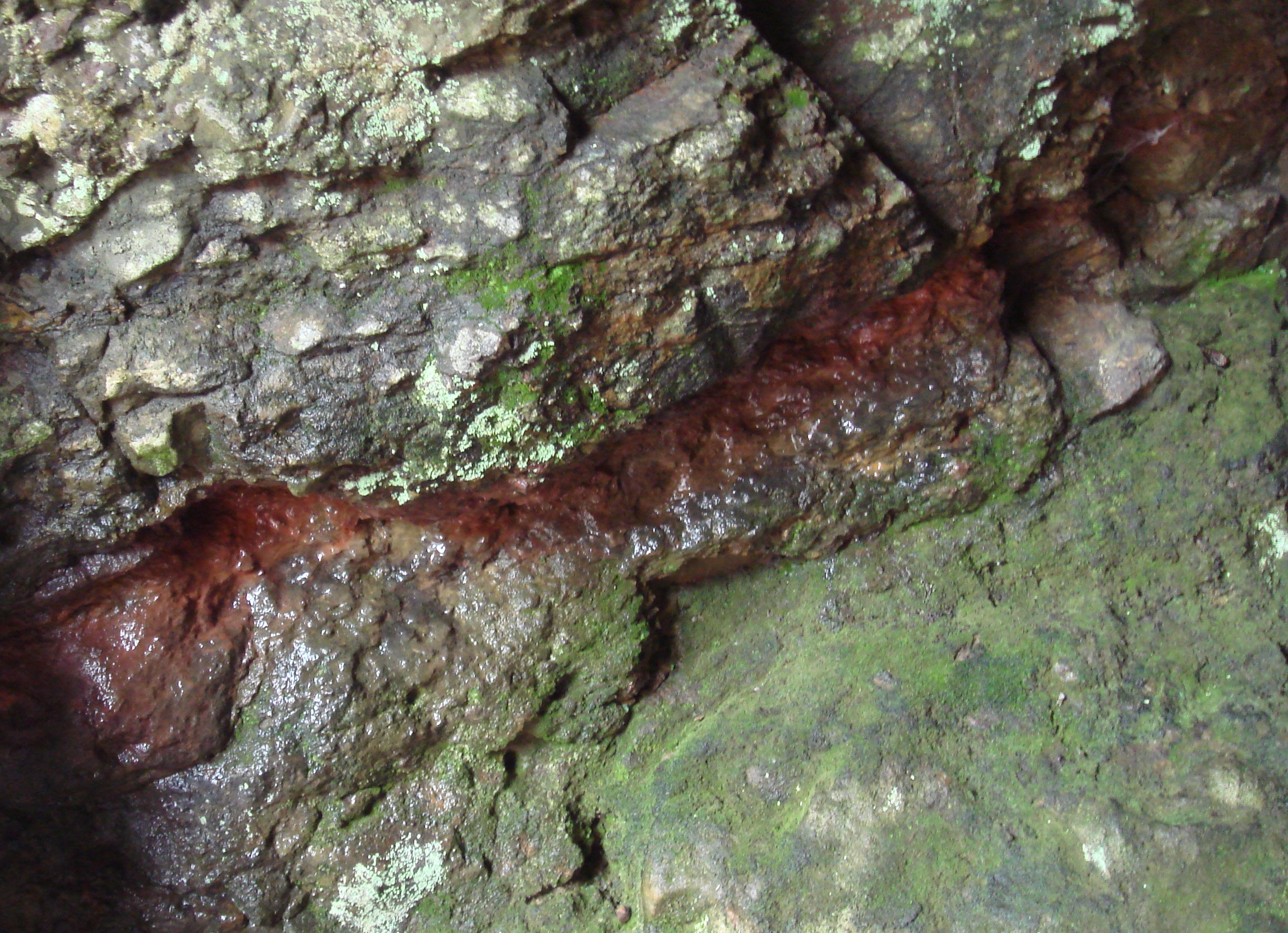 Gold bearing vein of Toi gold mine in Izu city, Shizuoka prefecture, Japan.